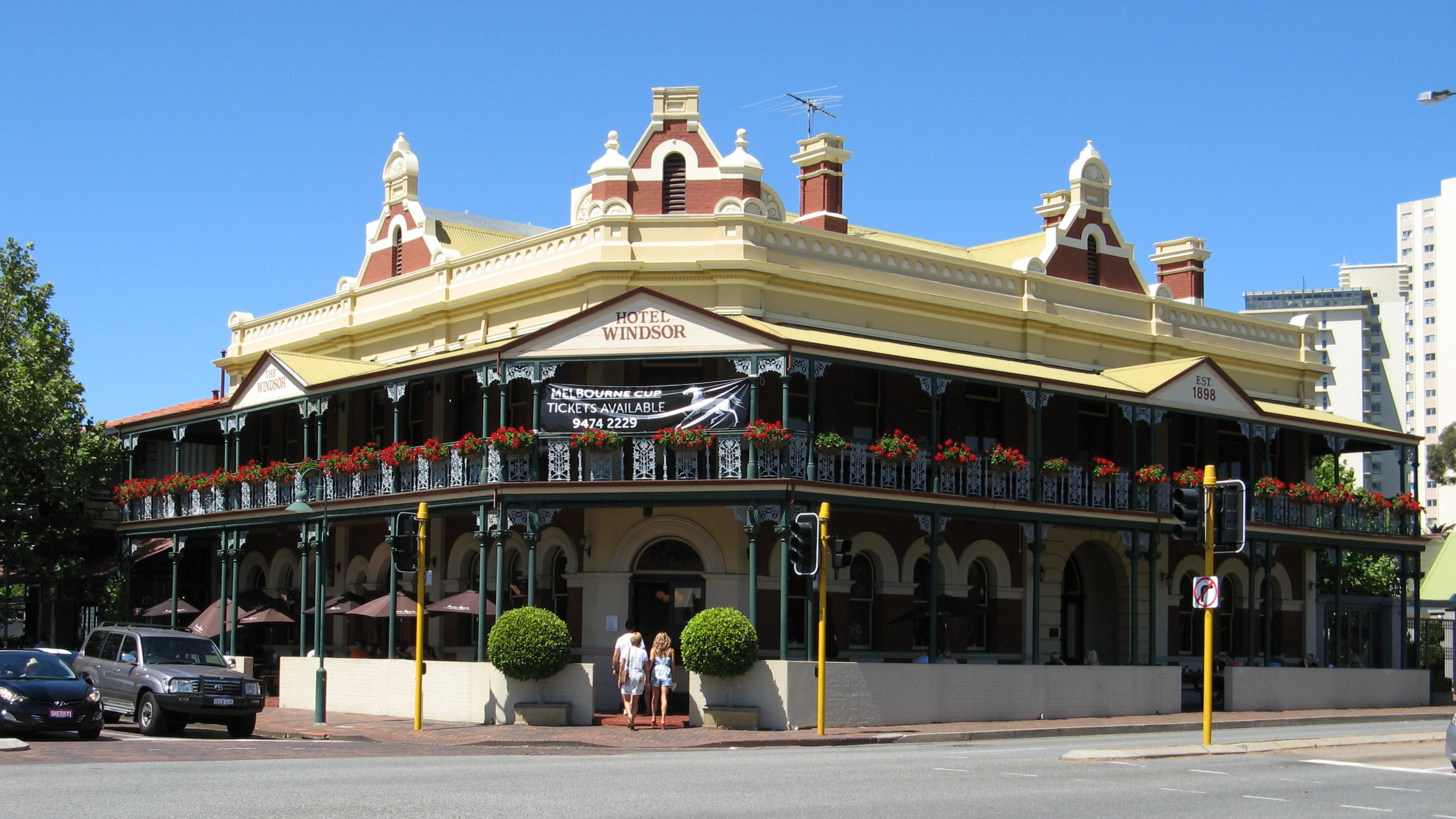 Windsor Hotel, South Perth, cnr Mill Point Rd and Mends St